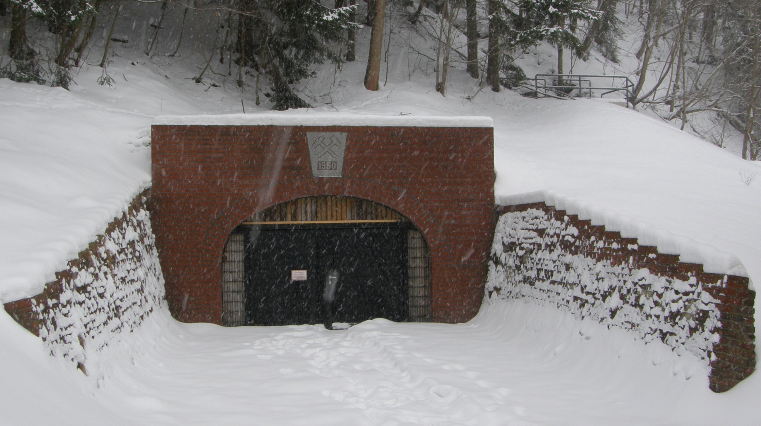 Reconstructed portal of the adit 30 (Stolln Neujahrbis/Schacht 185) in Johanngeorgenstadt, Germany